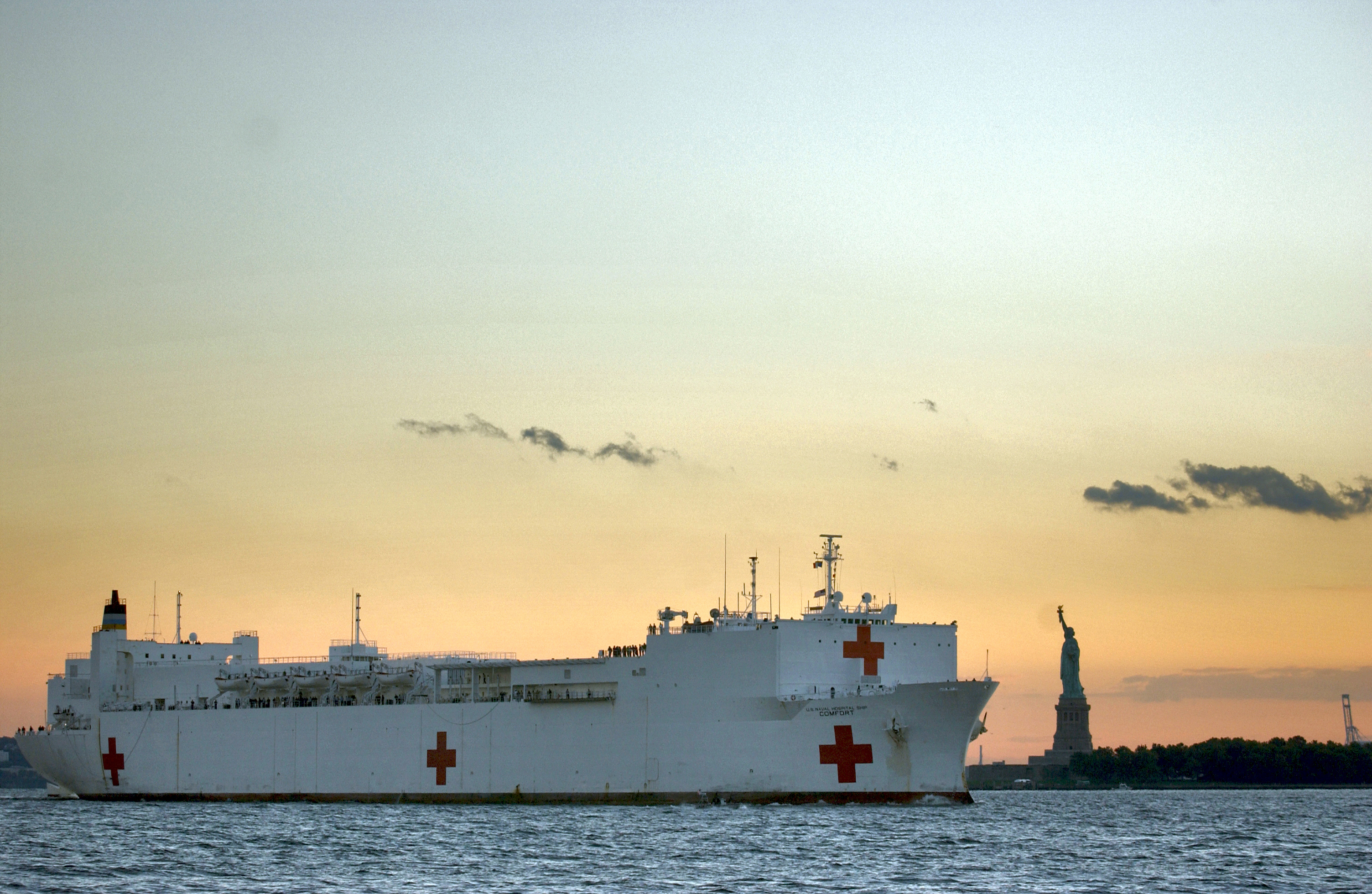 U.S. Navy hospital ship USNS Comfort (T-AH 20) passes the Statue of Liberty enroute to Manhattan to provide assistance to victims of the September 11th terrorist attack on the World Trade Center.